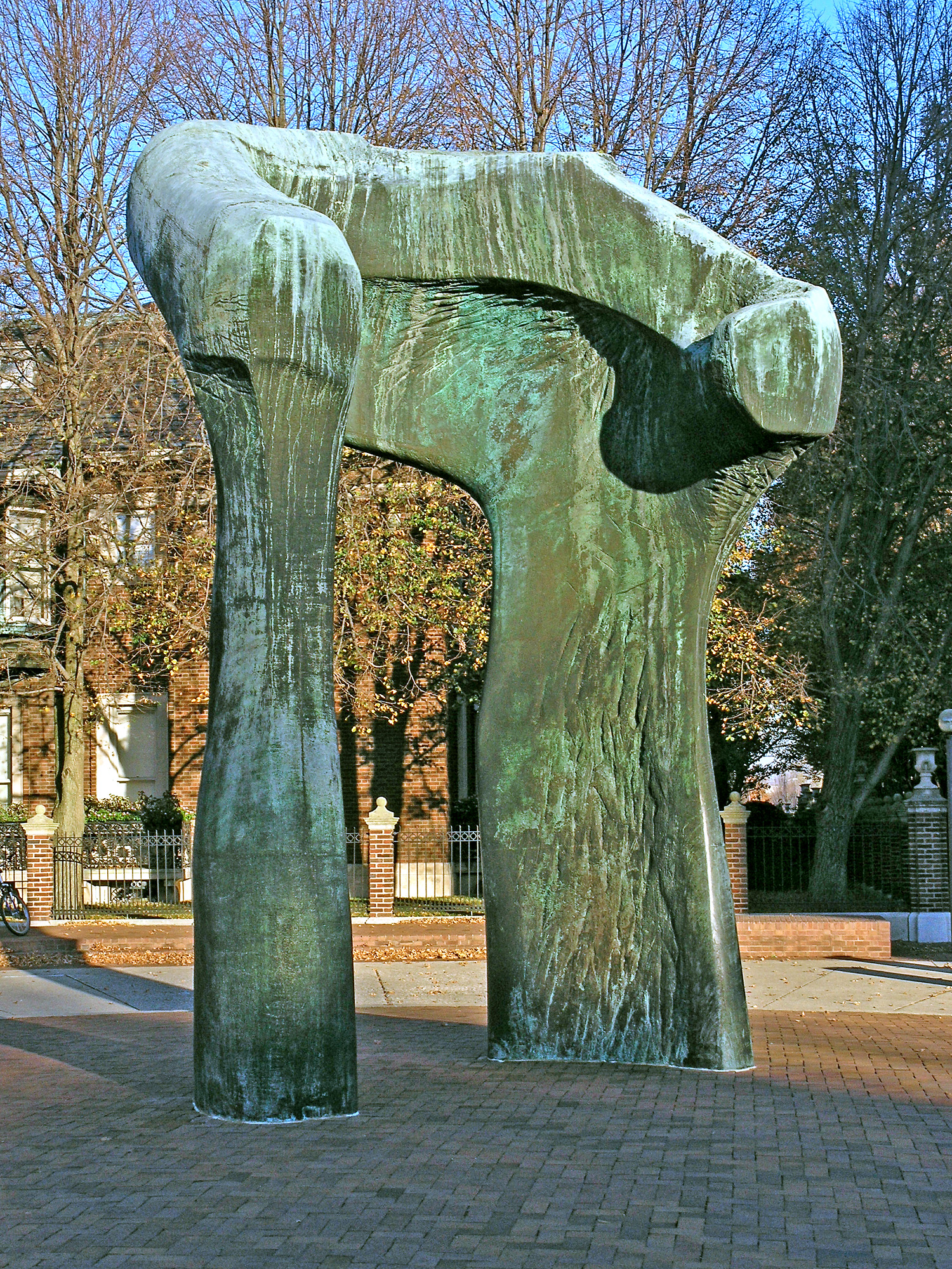 A photograph of Large Arch, a sculpture by Henry Moore installed to Cleo Rogers Memorial Library in Columbus, Indiana in 1971.